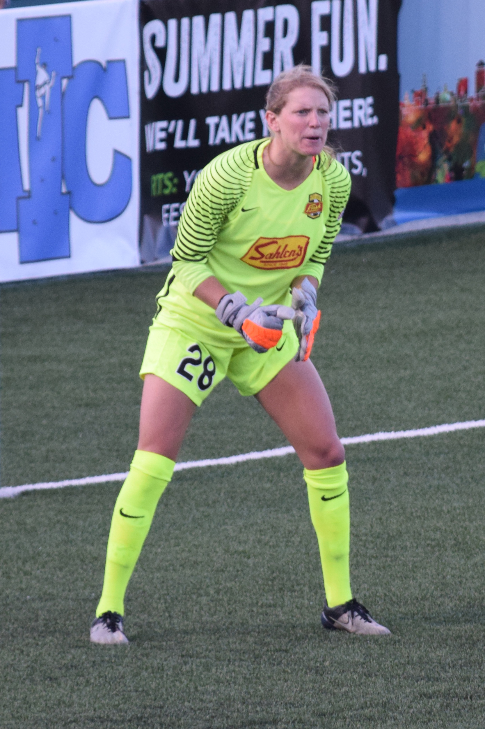 Britt Eckerstrom with the Western New York Flash during a match against the Orlando Pride on June 11, 2016 in Rochester, New York